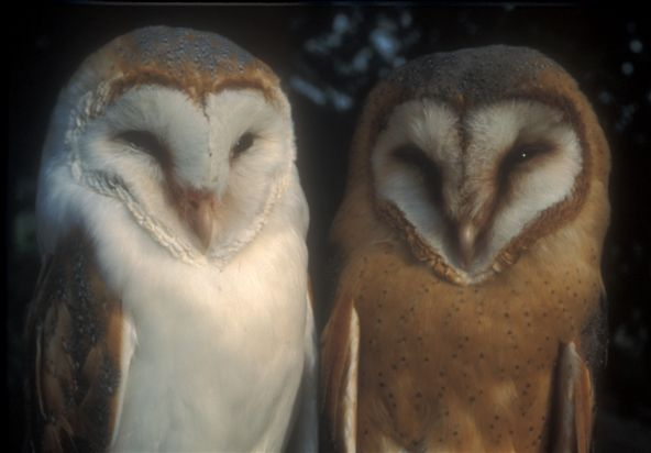 Barn Owl